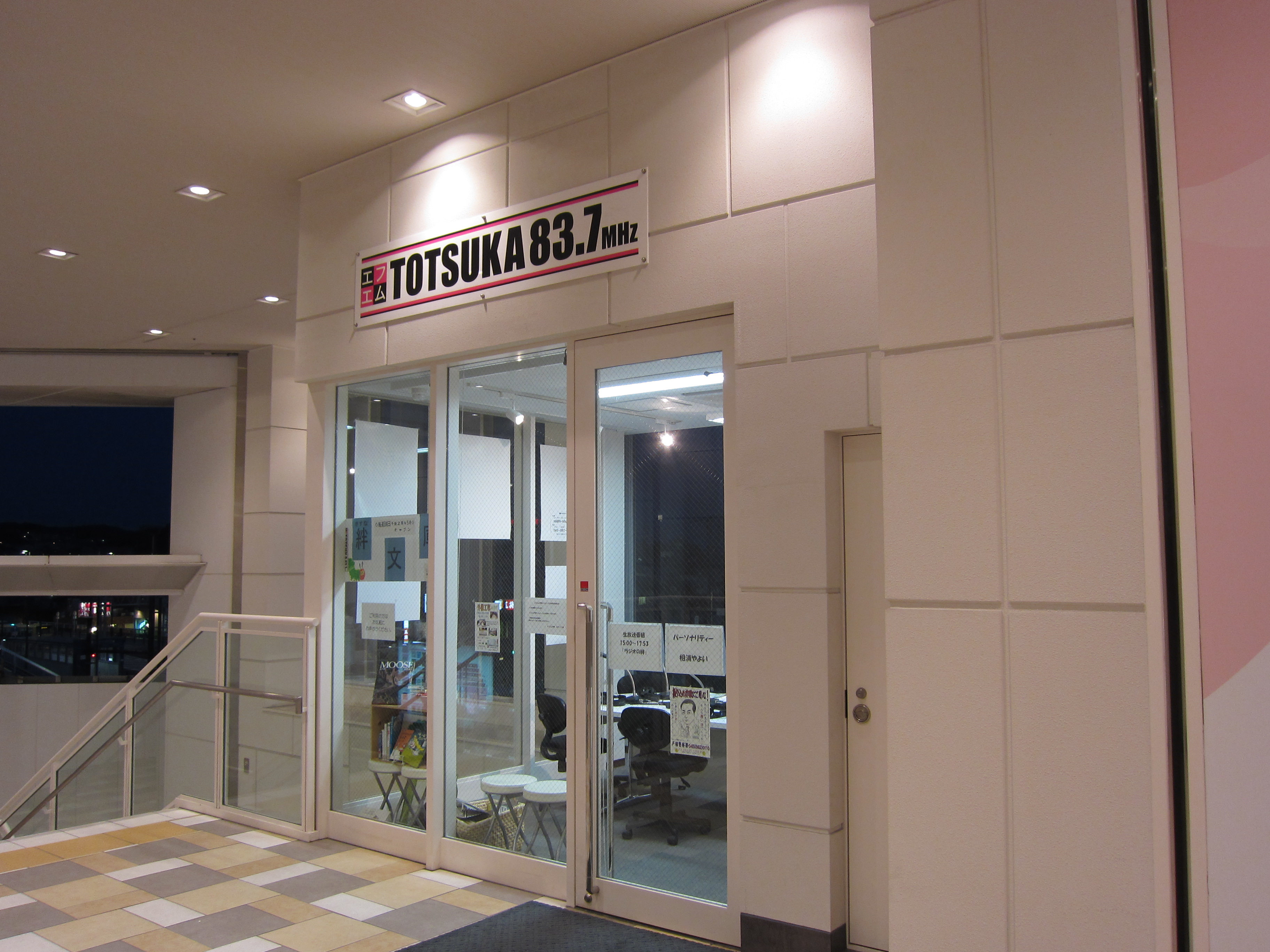 FM Totsuka Sakurass Stadio